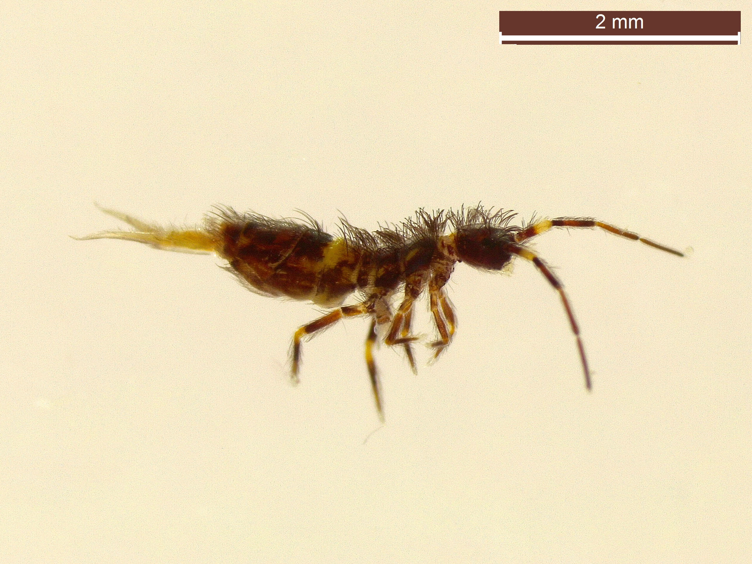 Extracted from beech leaf litter using Berlese funnel, Gribskov near Kagerup, Denmark, 27-29 January 2018